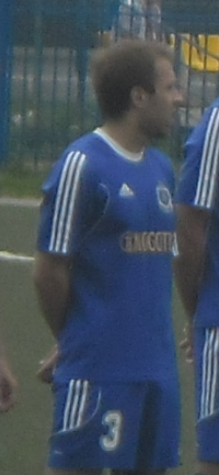 Aliaksandar Bylina in match SKVIC - Dniapro